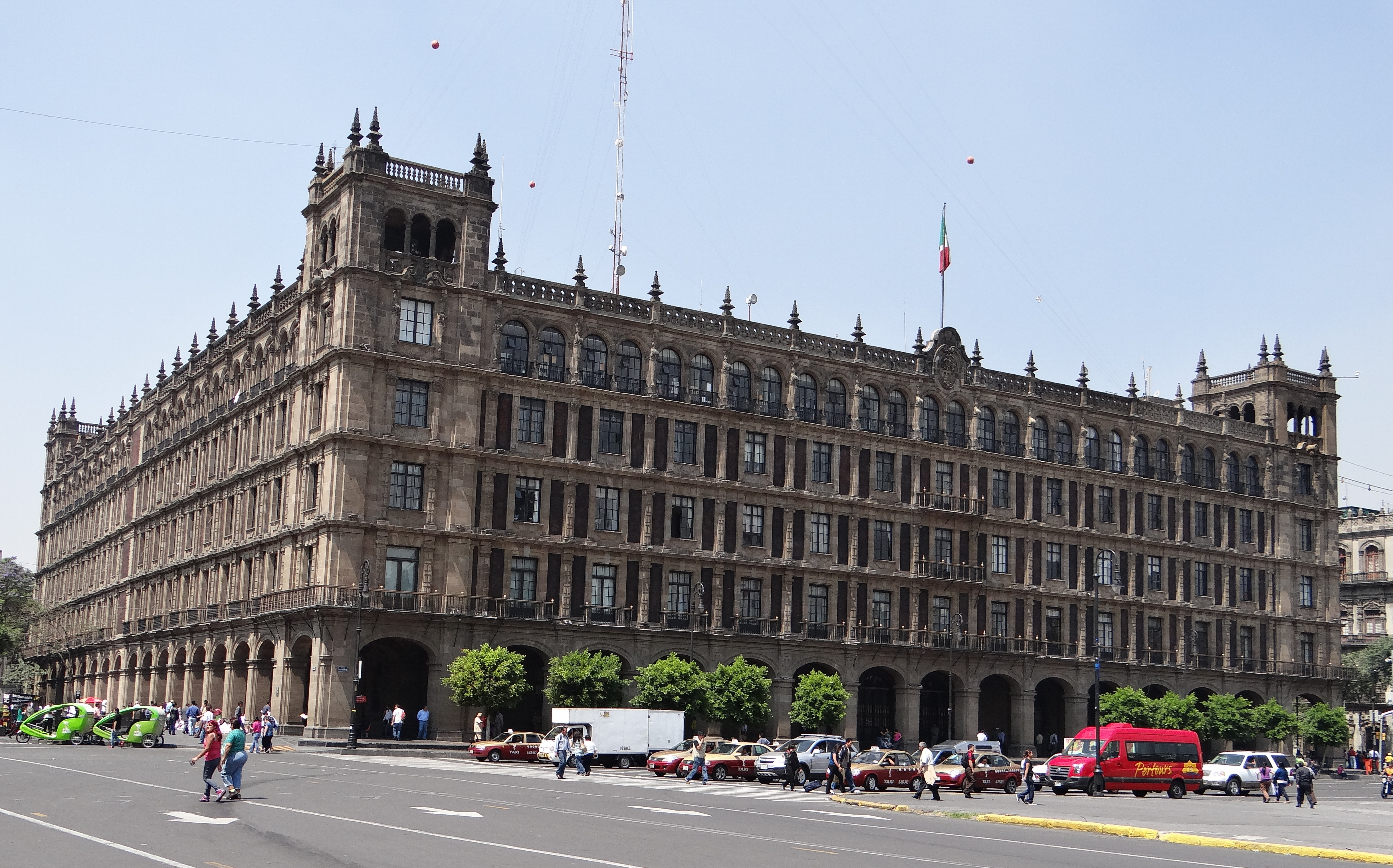 The "new" Federal District Building on the south side of the Zócalo in Mexico City. It is twin to the "old" building located next door.